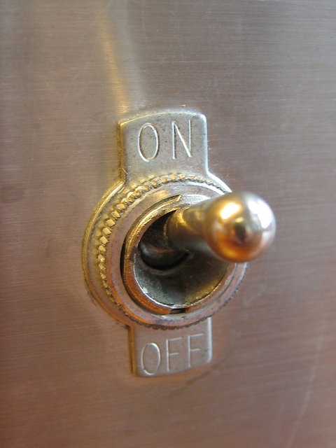 This is a photo of a simple on/off switch. Photographer = Jason Zack I took this photo and authorize its use under the license terms below. •JZ• 17:26, 27 November 2006 (UTC)